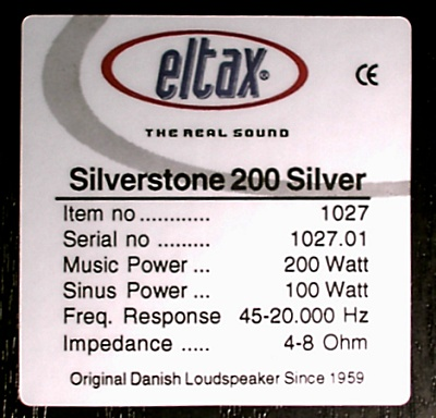 The label of an Eltax Silverstone 200 loudspeaker. Picture taken and released into the public domain by User:Kallemax to replace Image:Sx30 label.jpg.